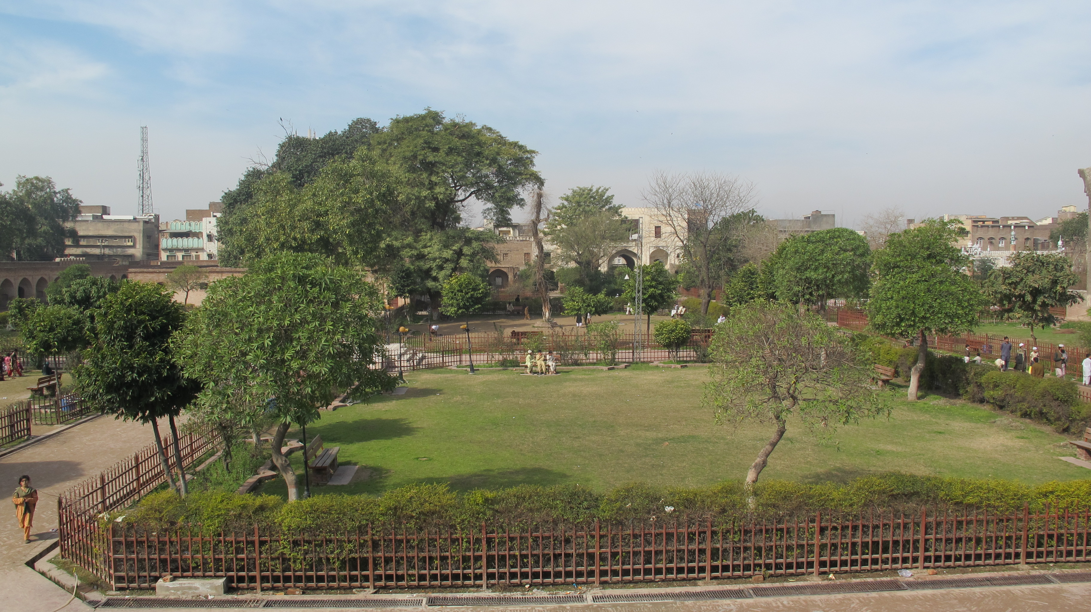 Gorkhatree This is a photo of a monument in Pakistan identified as the KPK-50